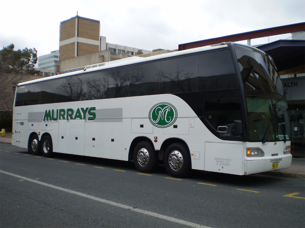 Austral Pacific bodied Scania K113TRBL 14.5m Quad-Axle Coach operated by Murrays in Canberra, Australian Capital Territory.